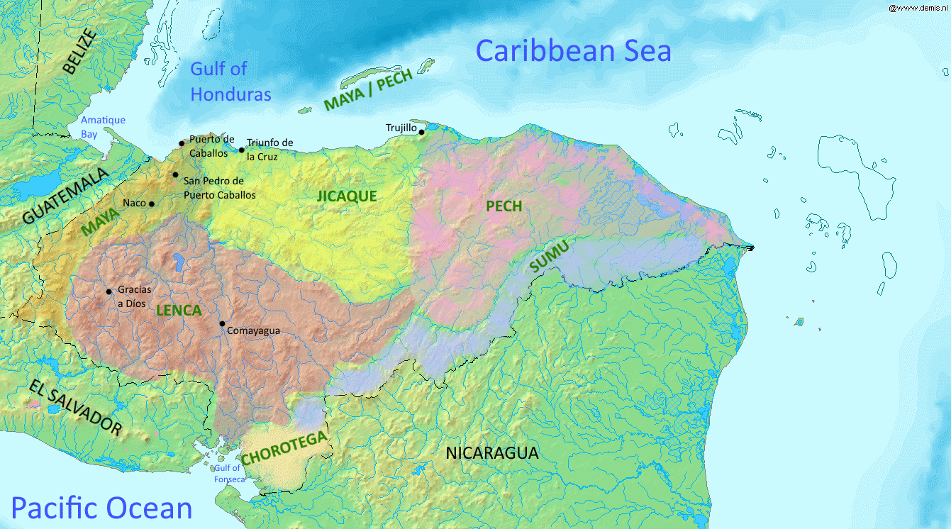 Approximate territorial extent of indigenous groups in Honduras during the 16th century, with principal Spanish settlements. Sources: Newson, Linda (2007) [1986]. El Costo de la Conquista. Tegucigalpa, Honduras: Editorial Guaymuras. ISBN 99926-15-57-5. p37.